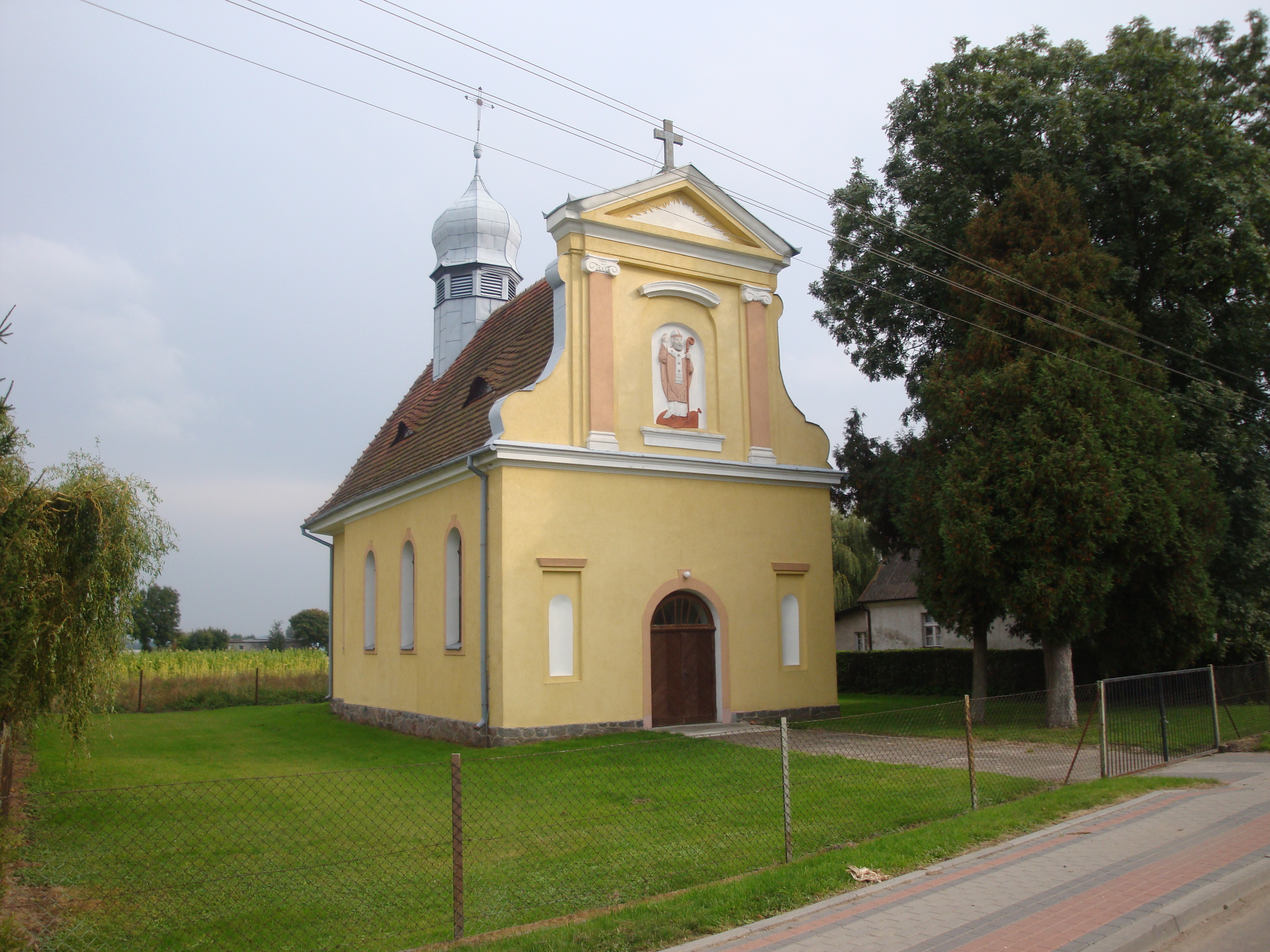 Adalbert of Prague chapel in Nebrowo Wielkie, Poland.